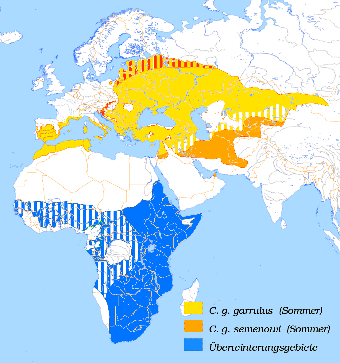 Coracias garrulus - Range Map